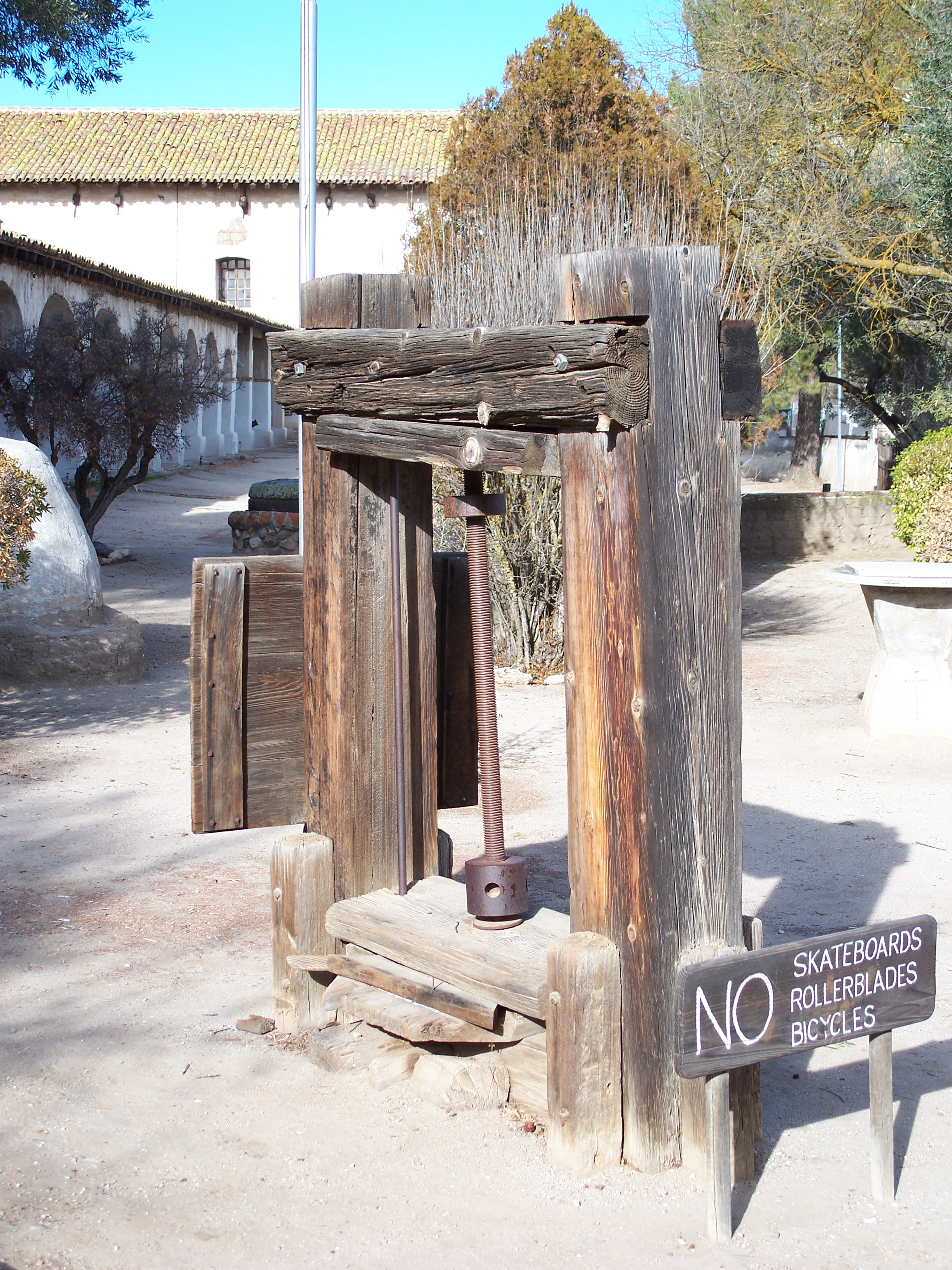 Olive press in Mission San Miguel Arcángel. San Miguel, California, USA